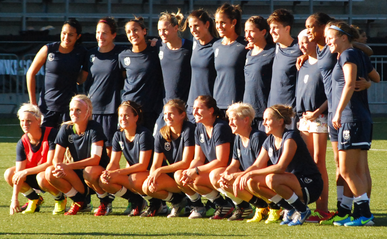 Seattle Reign FC pose for a photo before a match against the Chicago Red Stars on July 25, 2013 at Starfire Stadium in Tukwila, Washington.